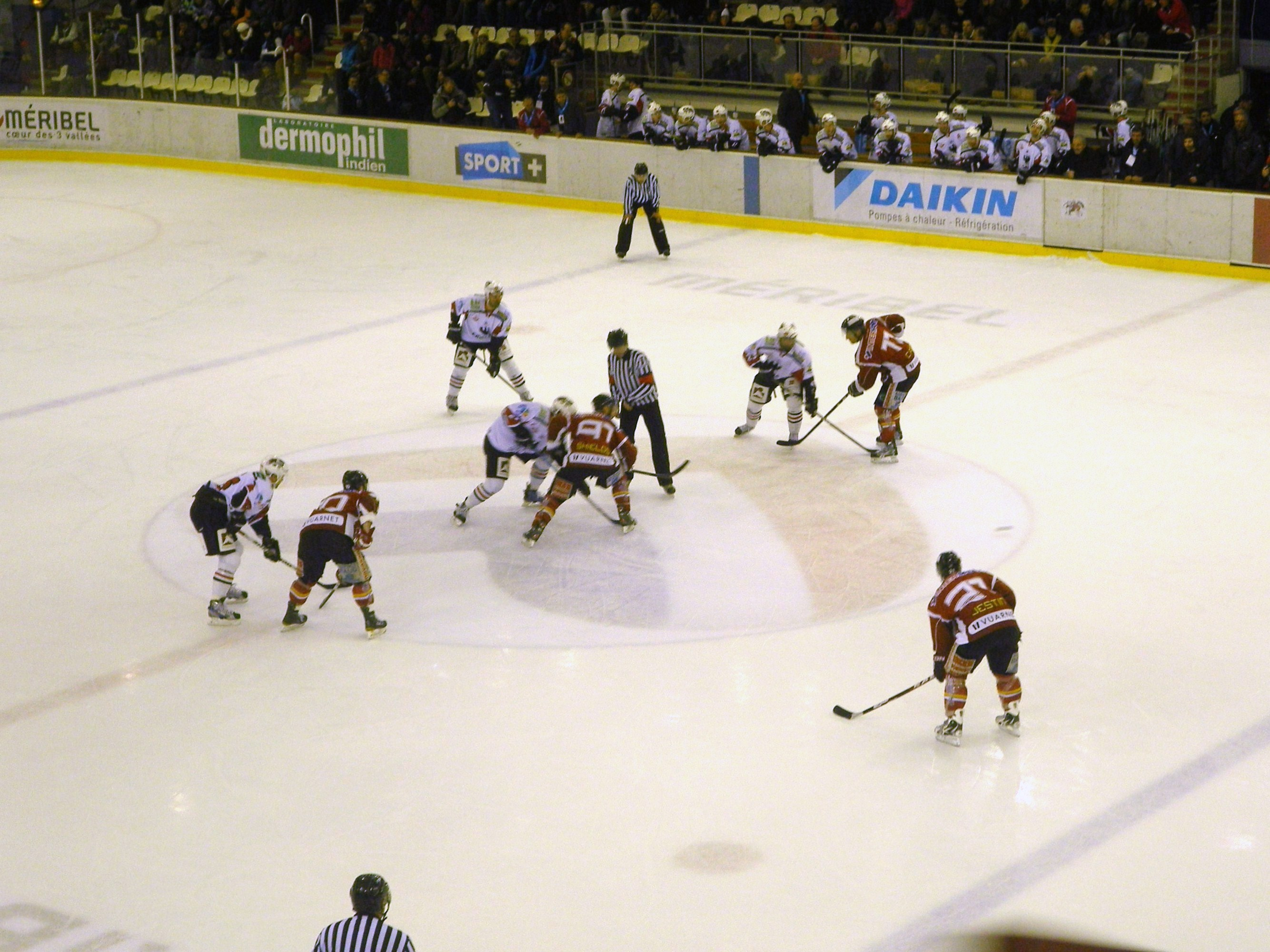 French league cup final 2012. Briançon Diables Rouges - Morzine-Avoriaz Pingouins